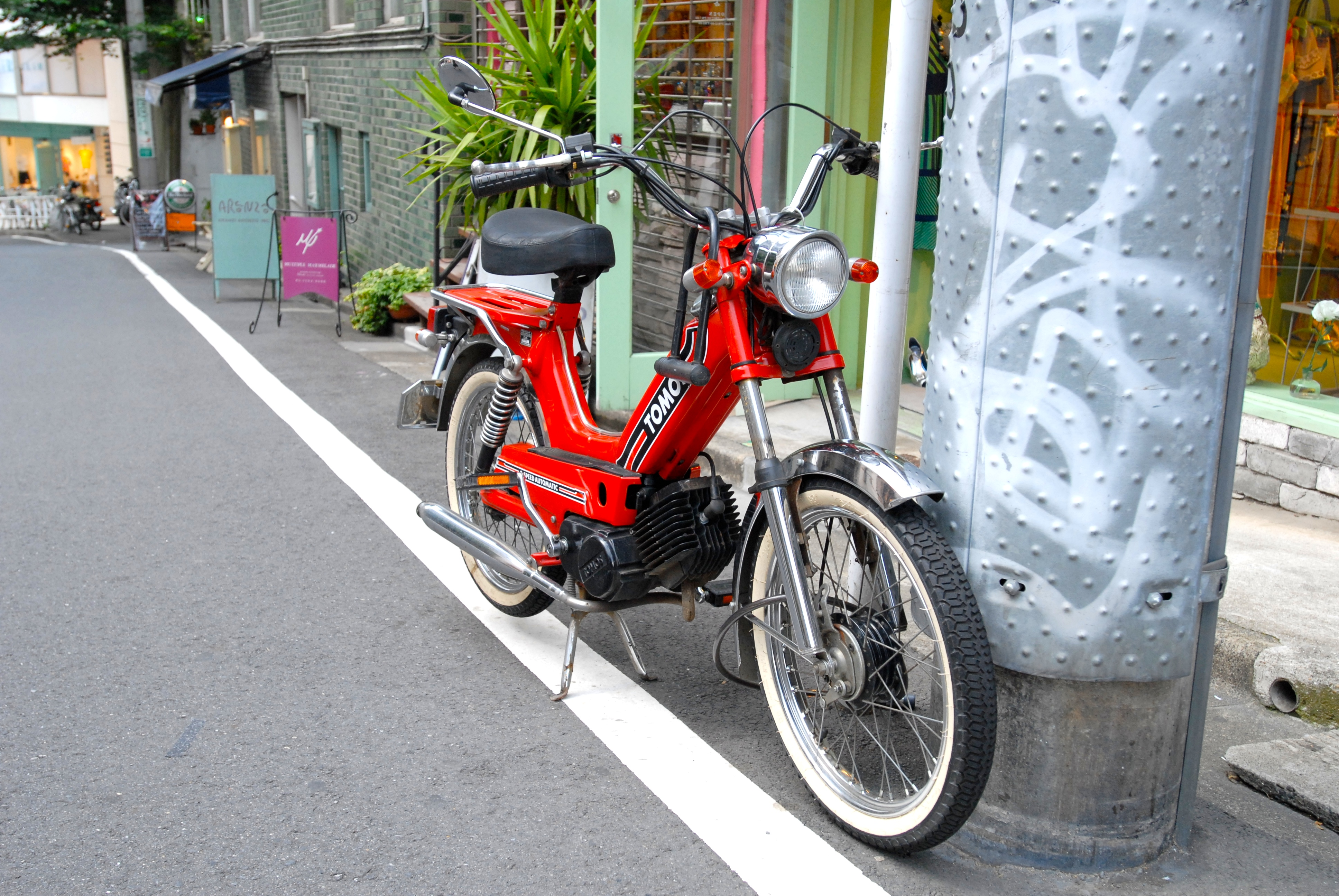 Moped on the street (Daikanyama)